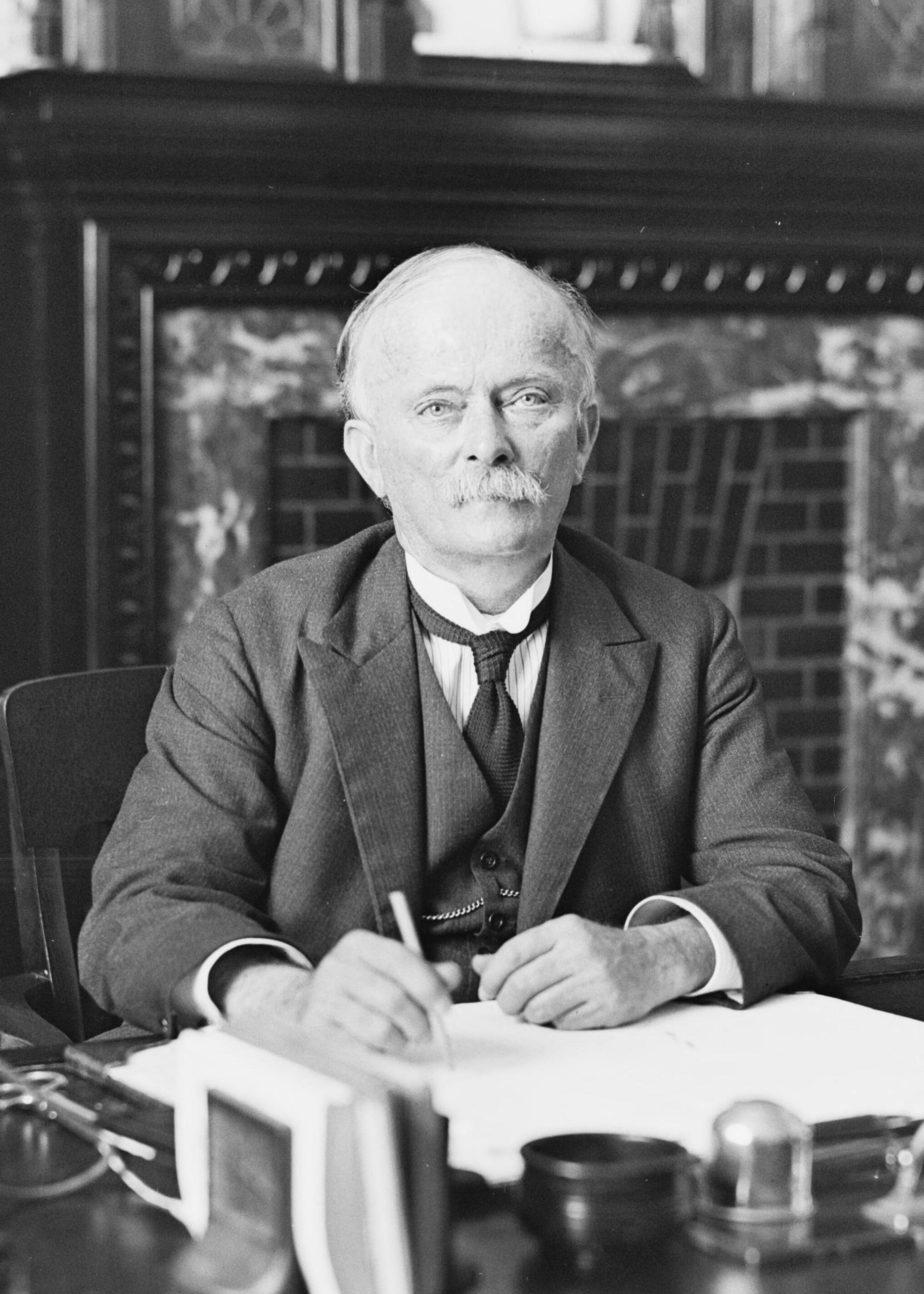 Australian engineer John Bradfield at his desk